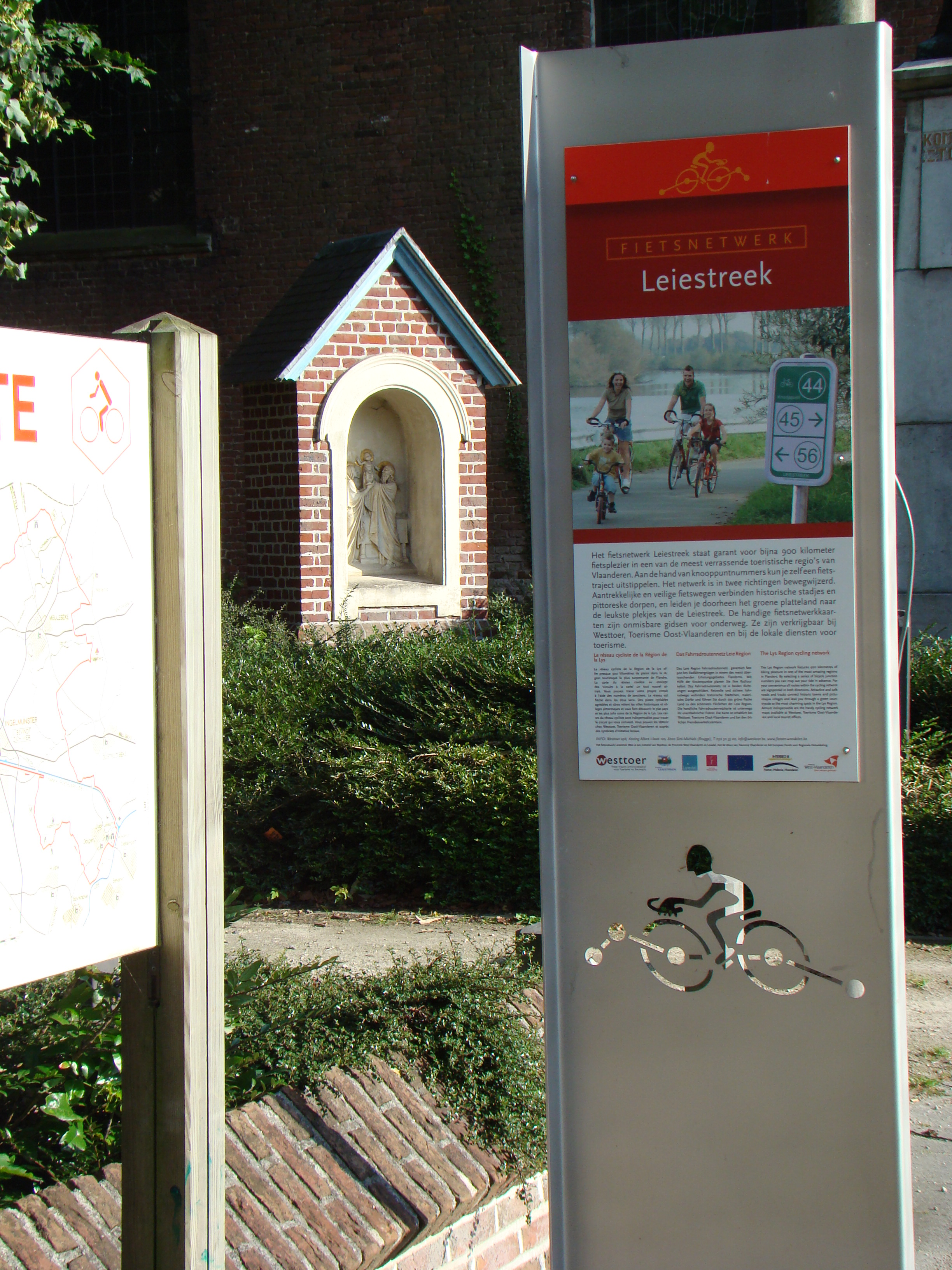 Ingelmunster (West Flanders, Belgium)